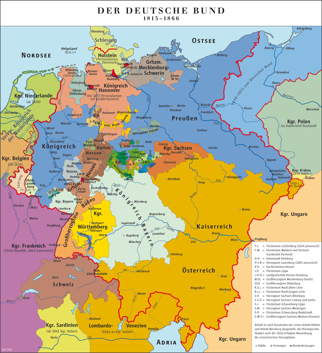 Reduced scale version of the original: thumb by Benutzer:kgberger